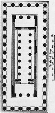 Plan of the Temple of Poseidon at Paestum. Illustration from 1911 Encyclopædia Britannica, article Architecture.